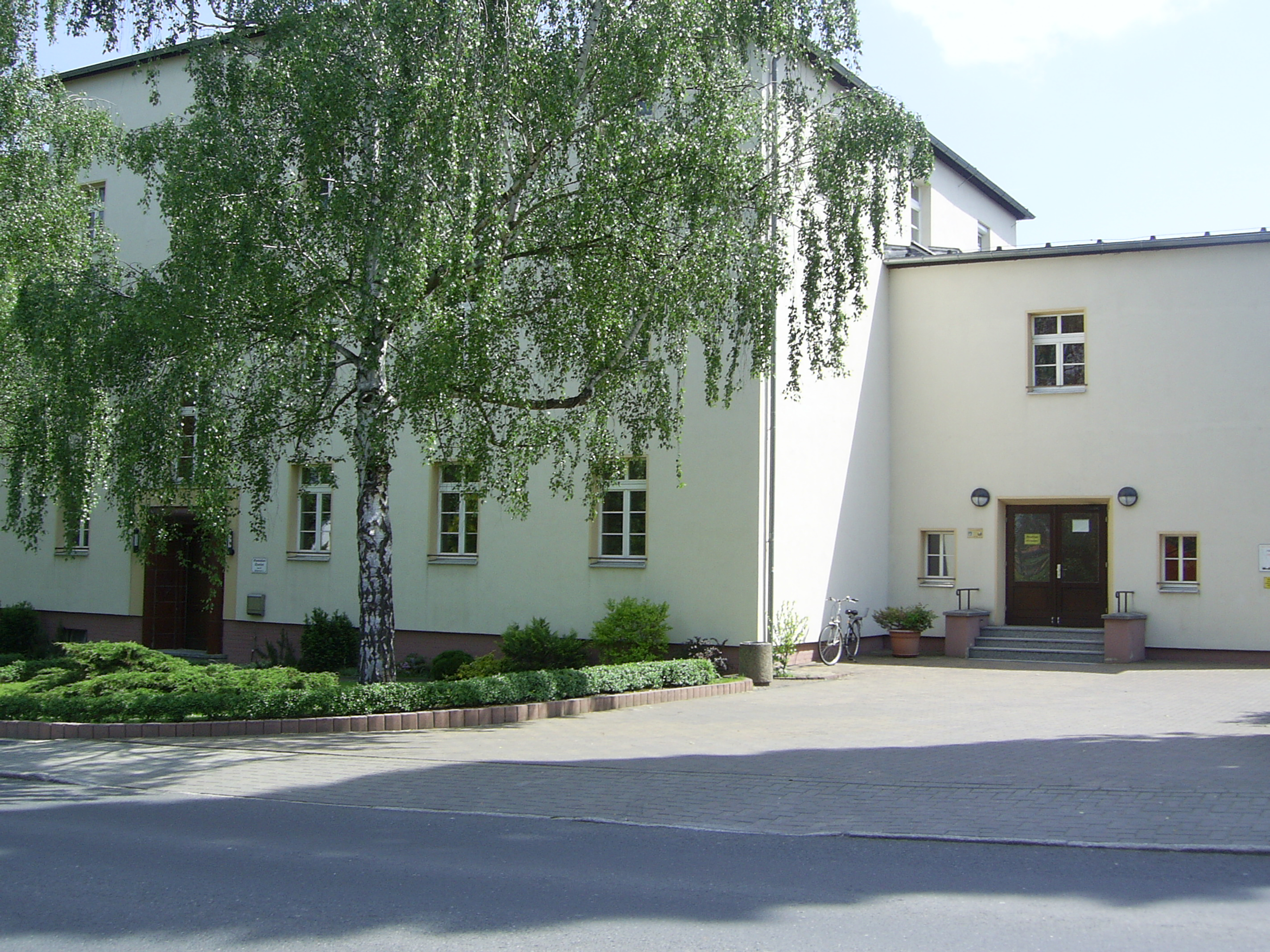 Front of the 2nd study building of the Gymnasium Querfurt High School